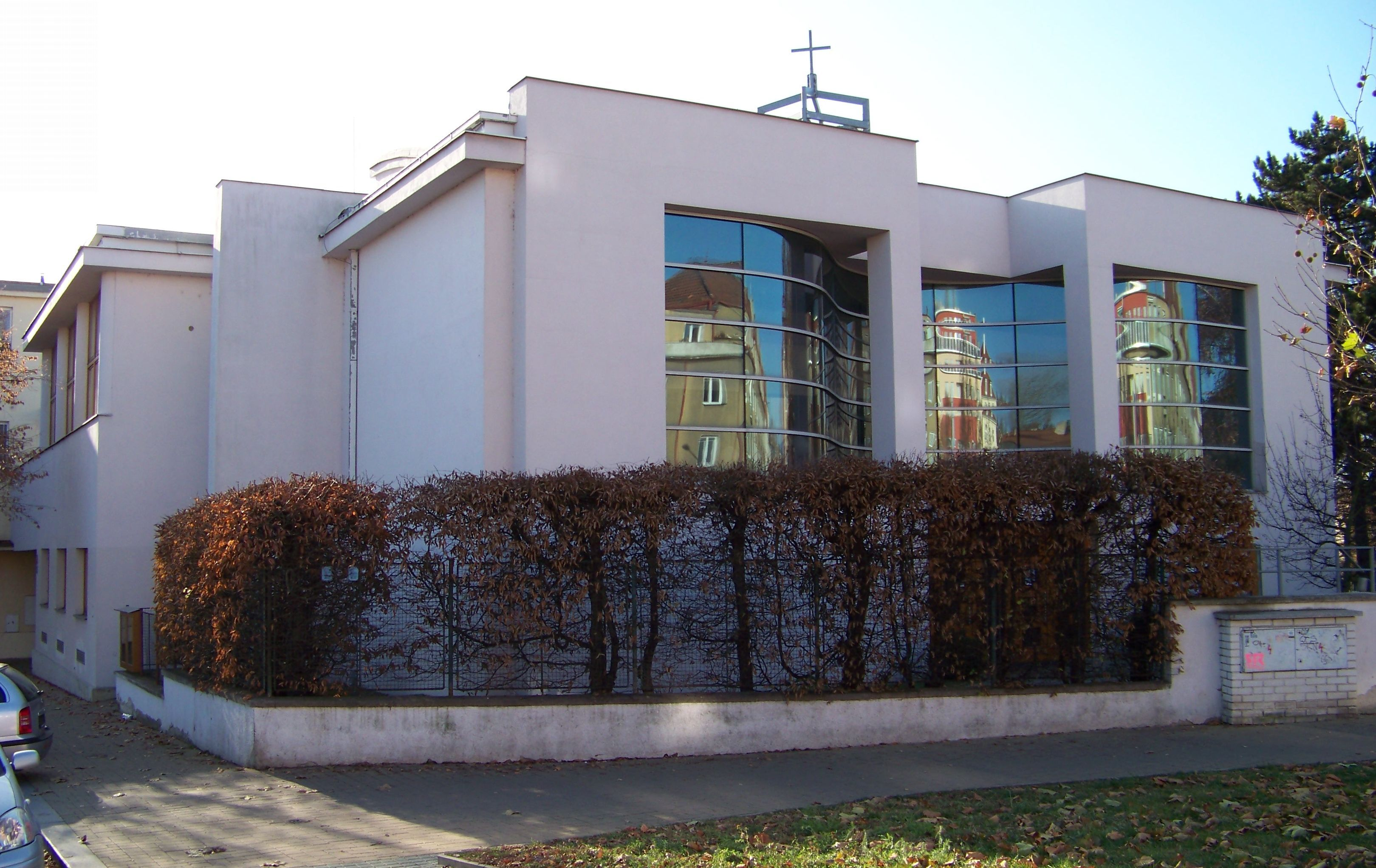 Prague-Kobylisy, the Czech Republic. Kobyliské Square, Čimická street, Salesian church of Saint Thérèse of the Child Jesus. - Google Maps - Google Earth